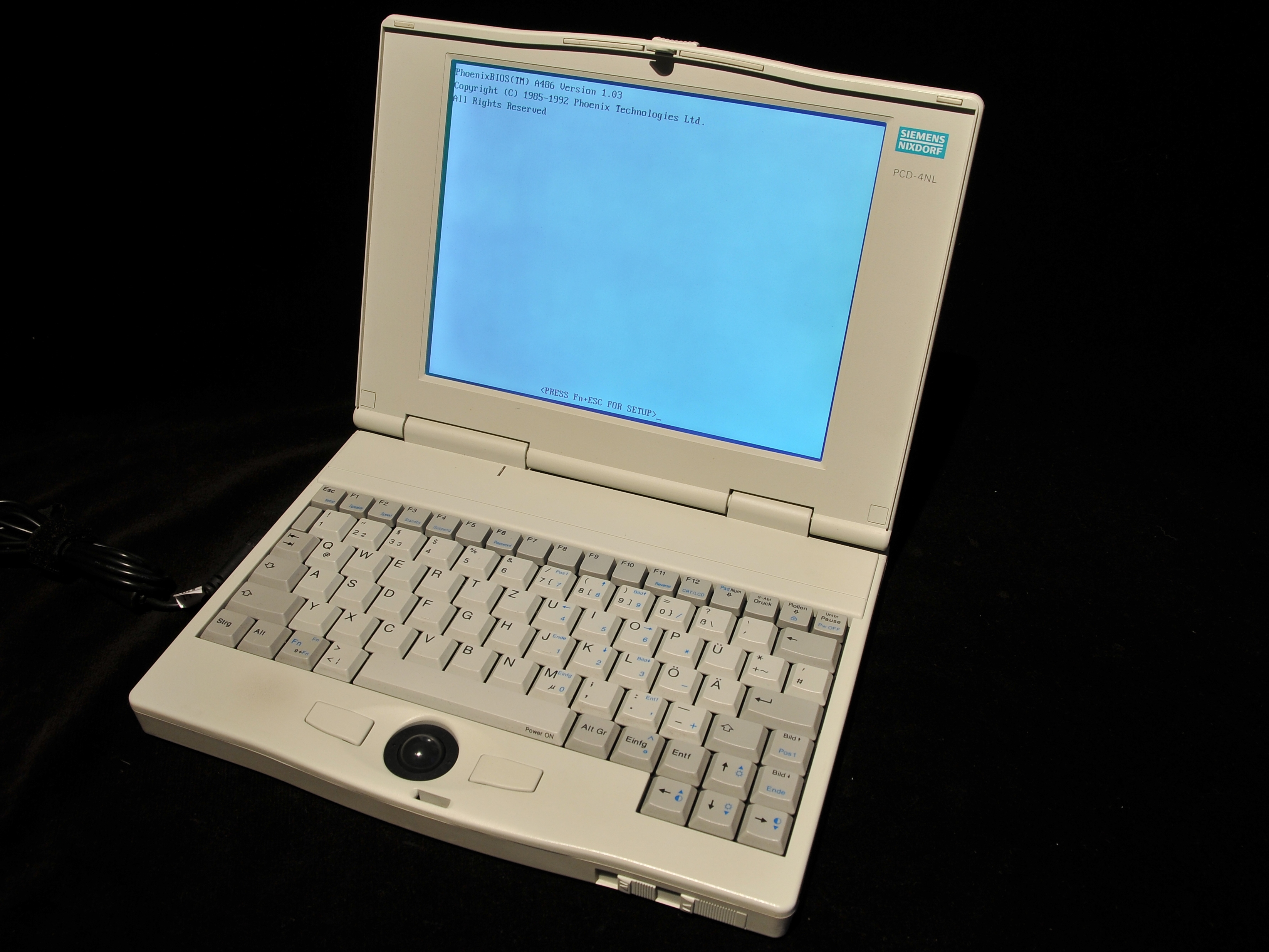 1995 Laptop PCD-4NL by Siemens-Sixdorf